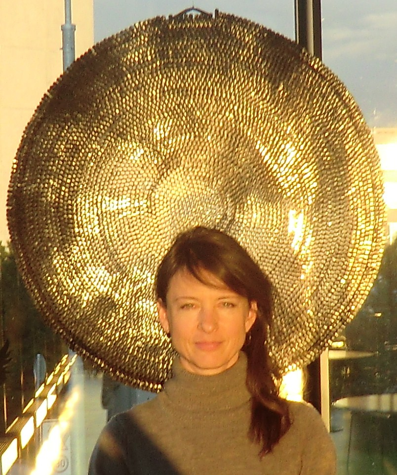 artist Vladana Hajnová